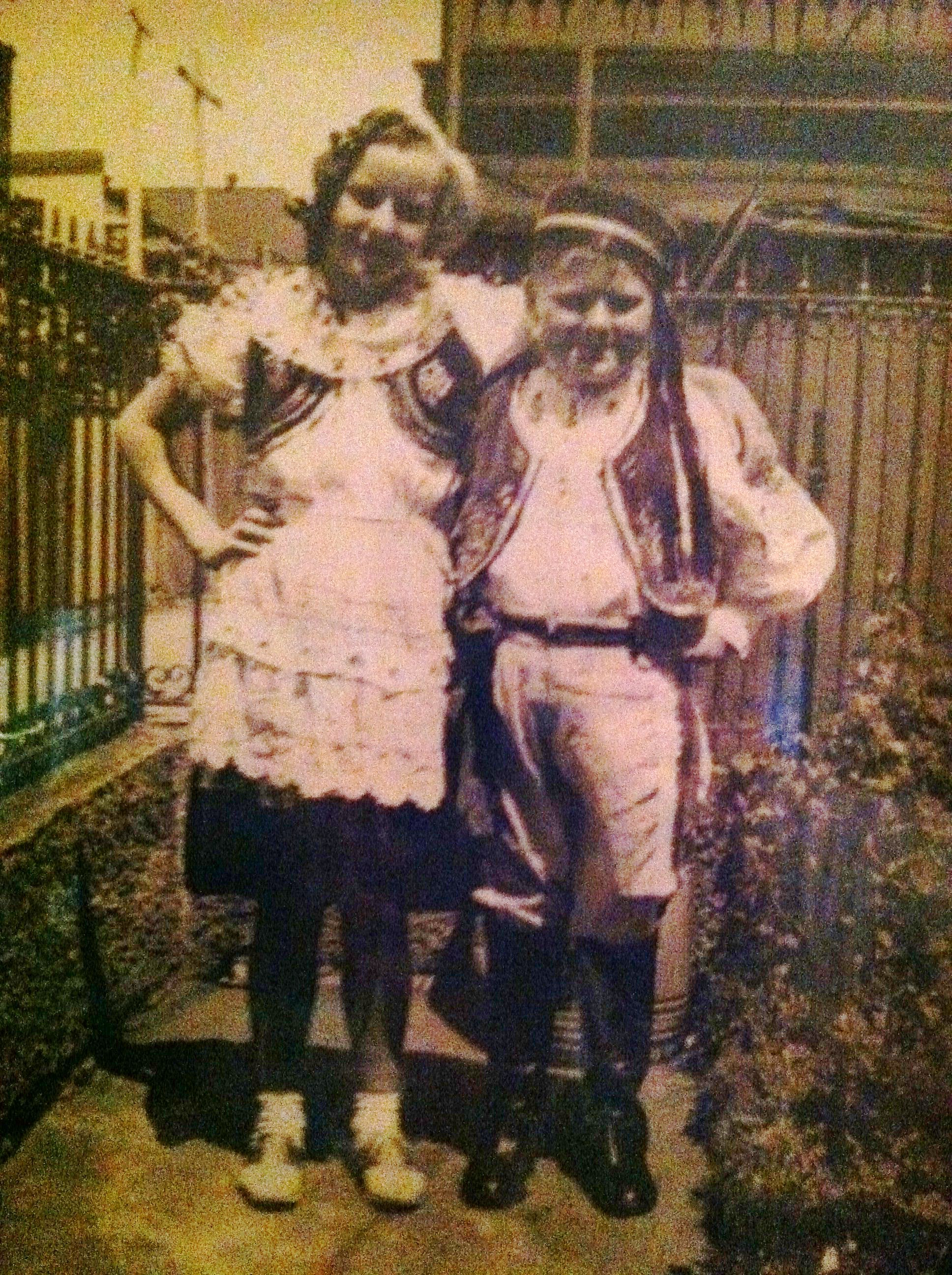 Albert John Matousek and Blanche Marie Matousek, a Bohemian brother and sister in the backyard of their home/barber-shop in Baltimore's Little Bohemia during the 1930s. They are wearing traditional Czech cultural costumes. Here is a photo of the backyard in June 2014. In this photograph, Al Matousek can be seen on the right as an adult playing the electric piano at the 28th annual Czech and Slovak Festival.